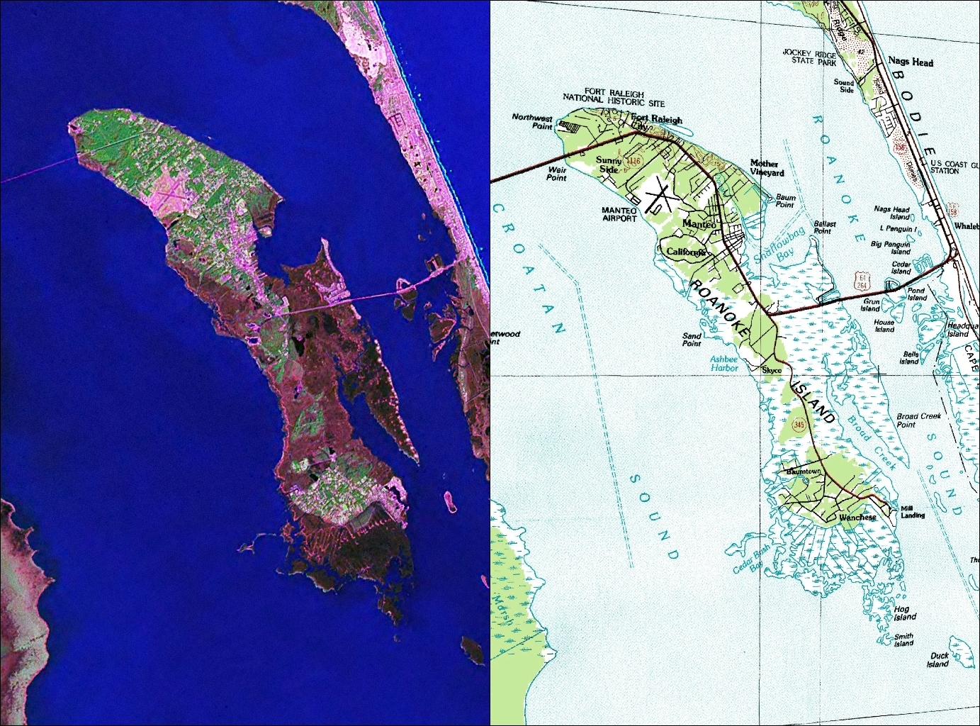 NASA World Wind Geocover 2000 and topographic map coverage of Roanoke Island, North Carolina